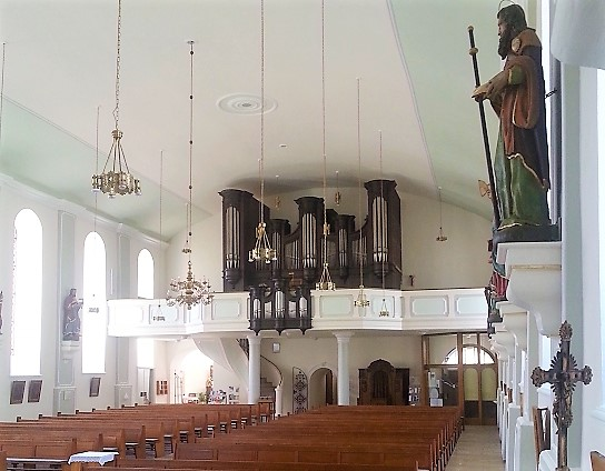 Interior of Allerheiligenkirche (Wadern)